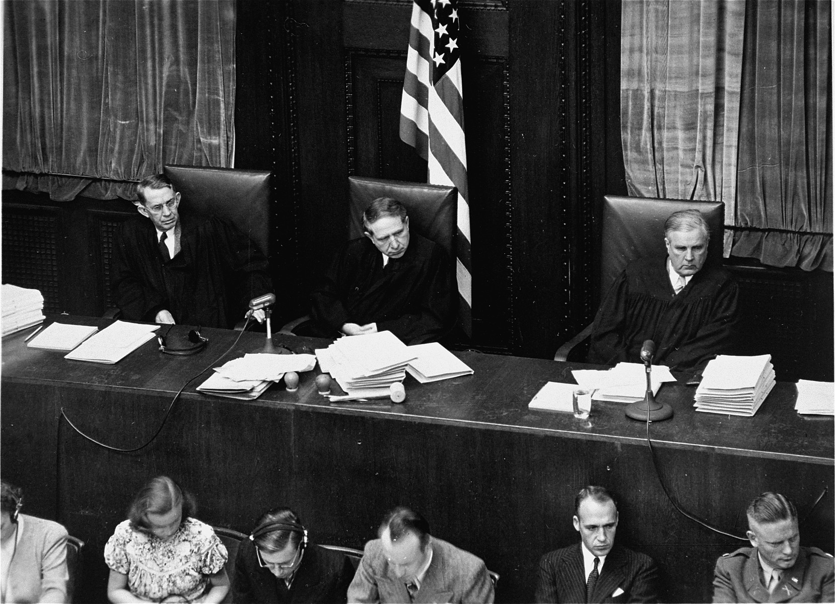 The judges of the Nuremberg Military Tribunal II, Case IX: „Einsatzgruppen Trial“ or „Unitest States vs. Otto Ohlendorf et al“. From left to right: John J. Speight, Michael A. Musmanno (presiding judge), and Richard D. Dixon. This photograph was taken by US Army photographers on behalf of the Office of Chief of Counsel for War Crimes (OCCWC) during the trial, which lasted from September 1947 unitl April 1948.